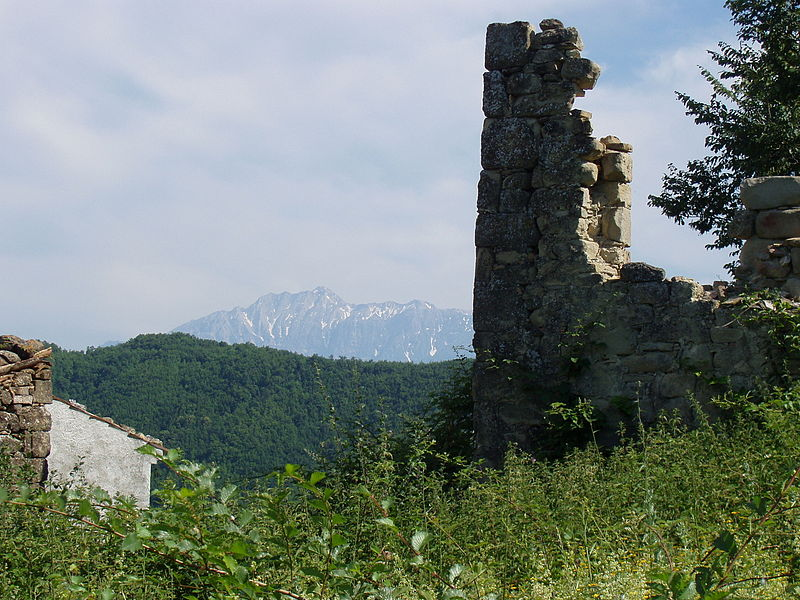 Abandoned ruins of the village of Frunti located in the Teramo Province of Abruzzo Italy.